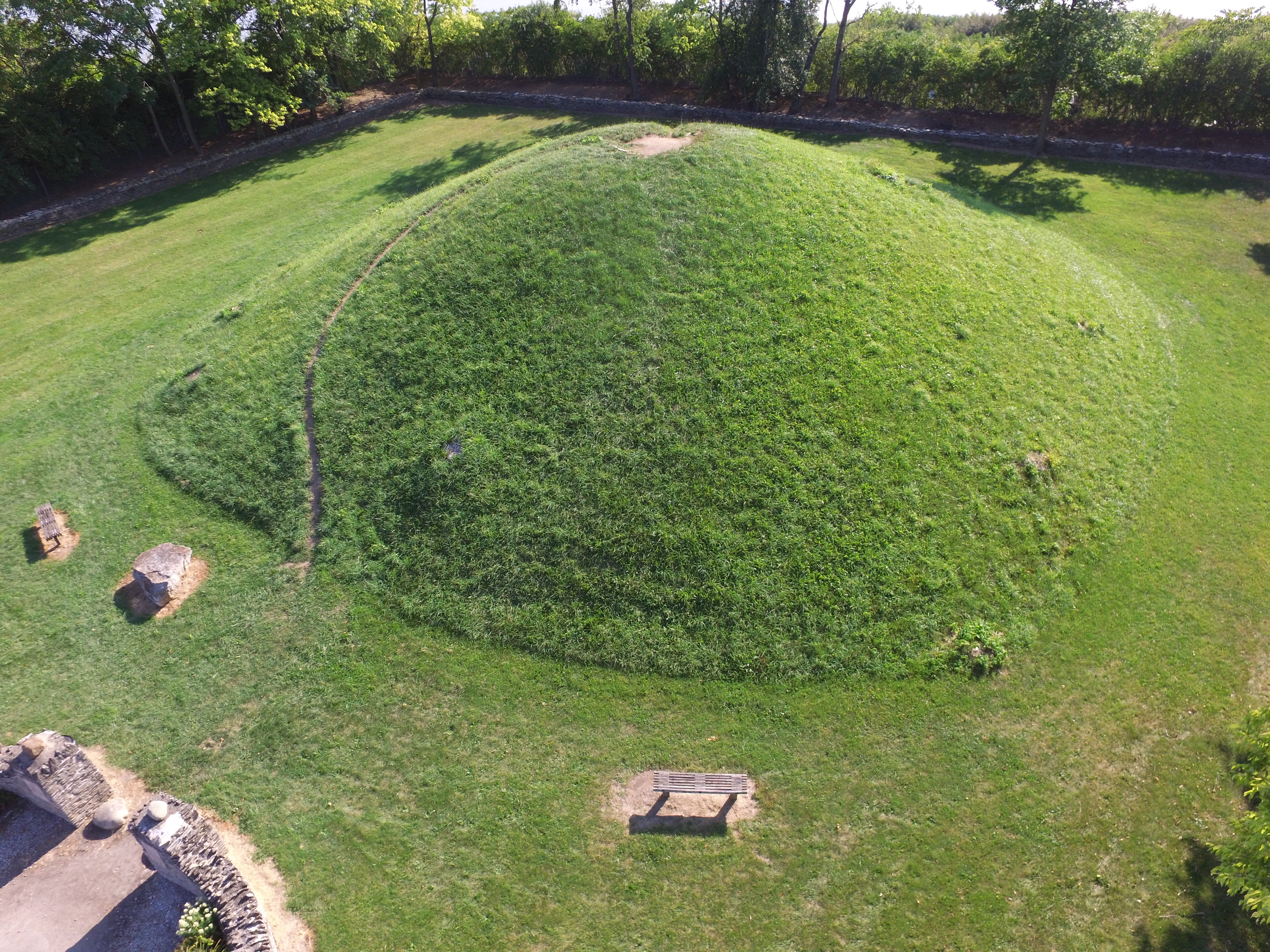 Shrum Mound in Columbus, Ohio, taken from the air with an unmanned aircraft system.